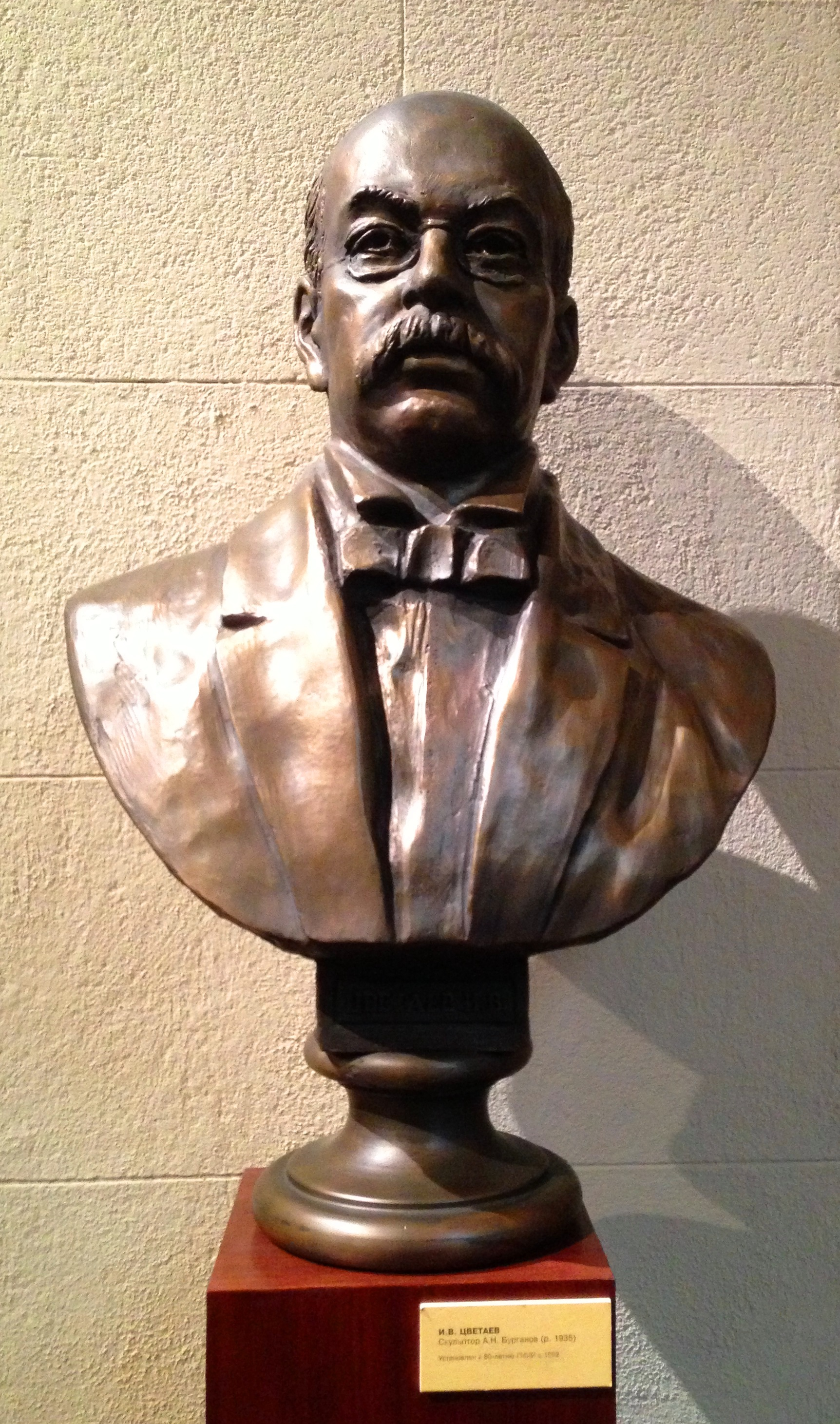 Bust of Ivan Tsvetaev by Alexander Burganov erected in the Pushkin Museum, Moscow